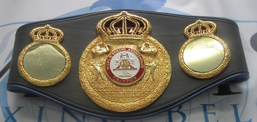 This is a world class WBA Championship Belt